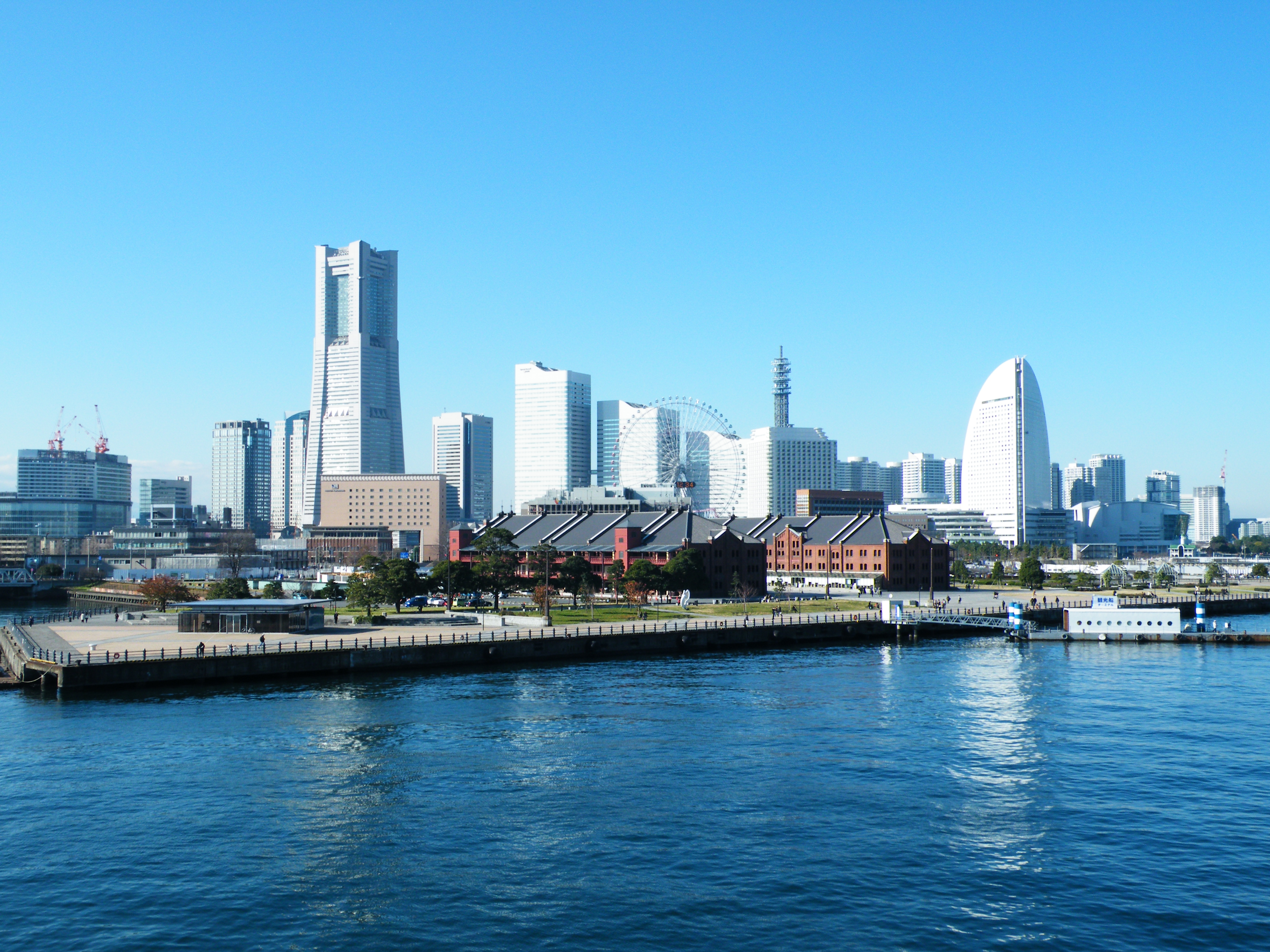 Minato Mirai 21, Yokohama, Japan. From left to right: Nisseki Yokohama, Landmark Tower (Japan's tallest skyscraper), Navios Hotel, Mitsubishi Heavy Industries, Aka-renga Soko (Redbrick Warehouse), Queen's Tower A, Queen's Tower B, Cosmo Clock 21 (ferris wheel), Queen's Tower C, Intercontinental Yokohama The Grand Hotel (half moon shaped building)